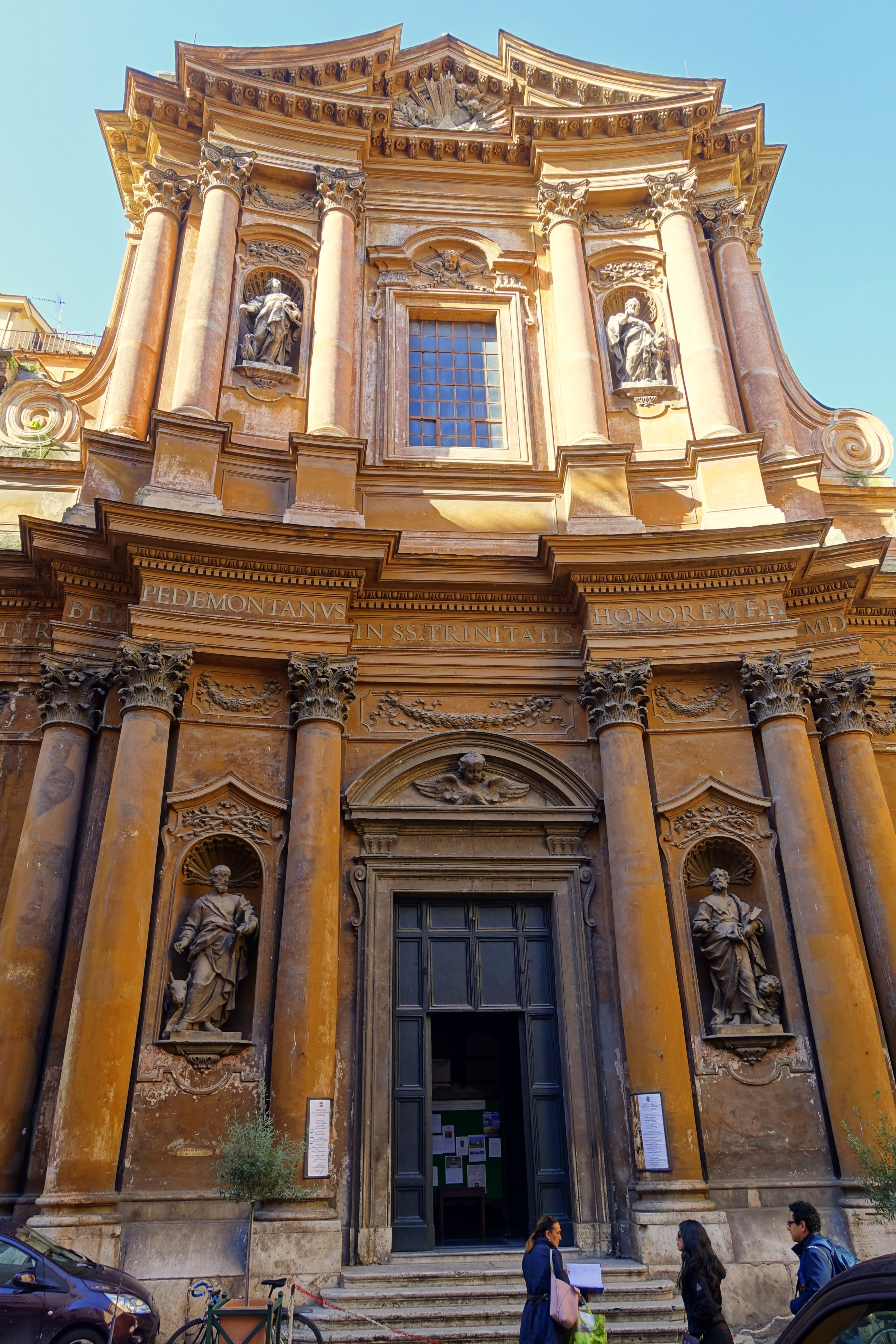 SS. Trinita dei Pellegrini - Rome, .